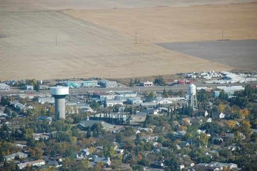 Aerial view of Kindersley, Saskatchewan